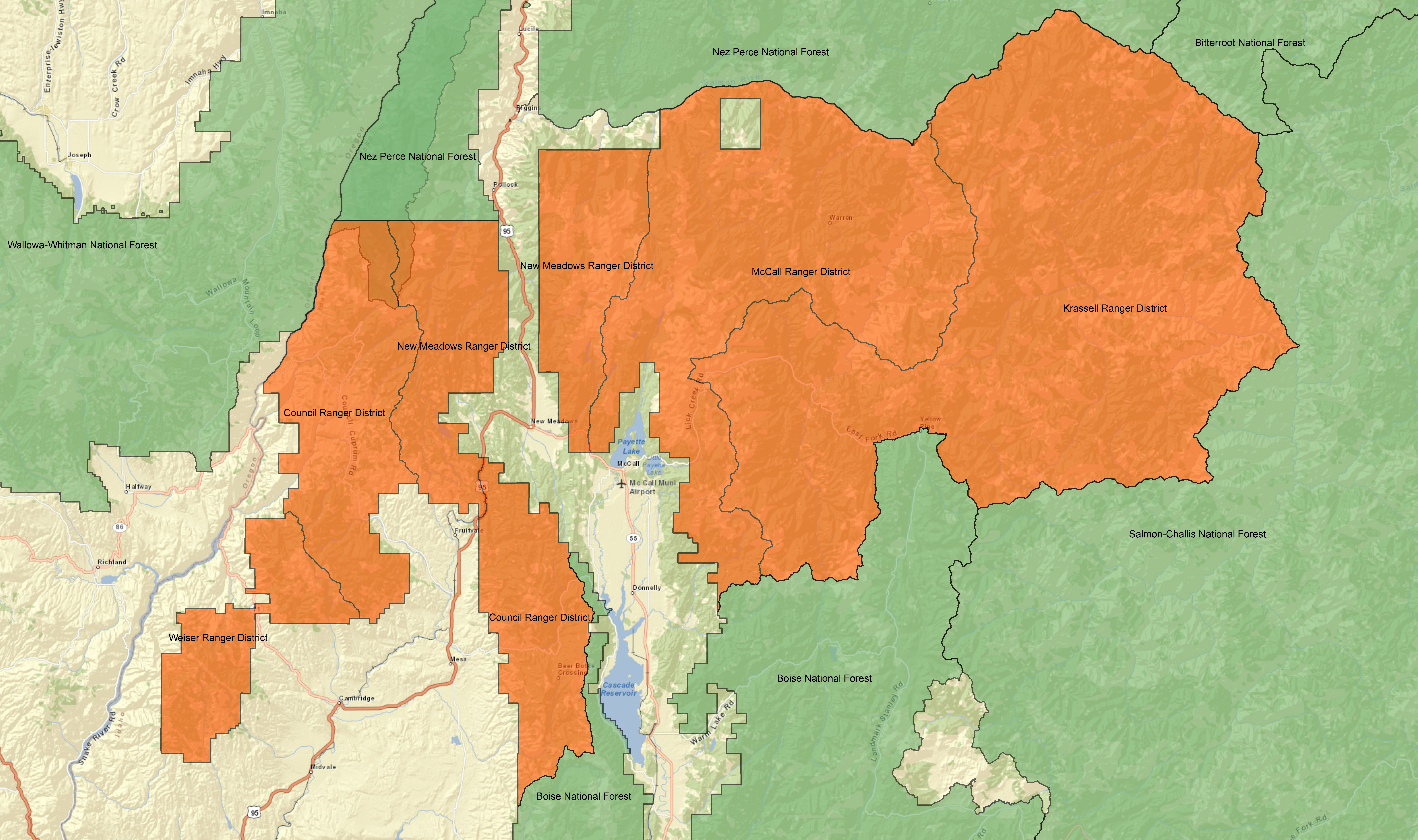 A map of Payette National Forest in Idaho. The Council, Krassell, McCall, New Meadows, and Weiser Ranger Districts of Payette National Forest are in orange. Surrounding National Forests, including Boise, Nez Perce, Wallowa-Whitman, and Salmon-Challis are in green. This map was made using ARCGIS 10, and all data are in the public domain. Forest Service boundary data are from the US Forest Service FSGeodata Clearinghouse